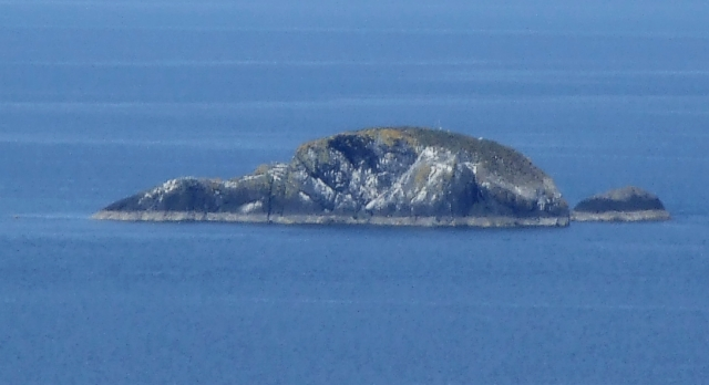 An t-Iasgair. A close up of An t-Iasgair (digital zoom from 866824), the main islette of this group of three rocks in the Little Minch between Skye and Harris. The tiny Sgeir nan Ruideag with prominent horizontal banding lies just to the right like the larger island's pup.